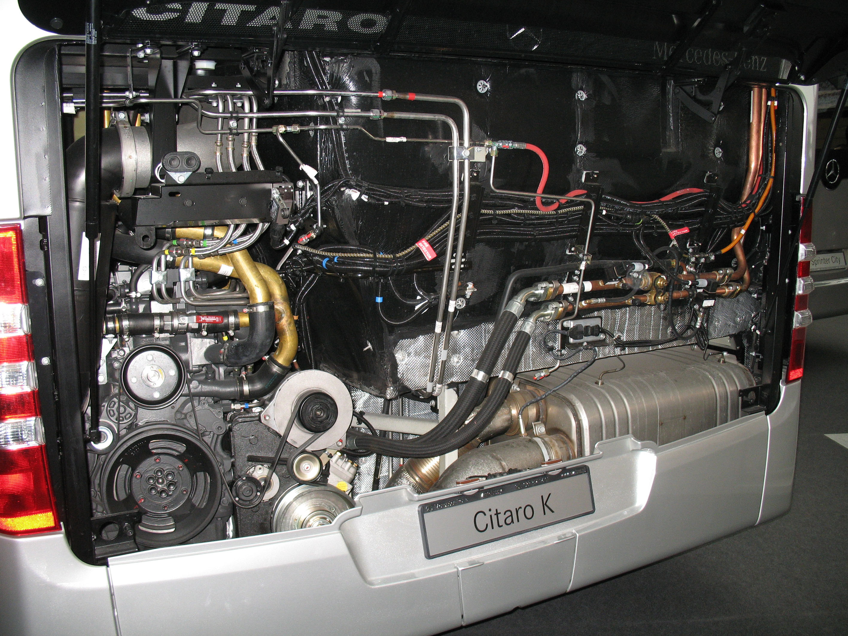 Mercedes-Benz O530 Citaro K bus (reg. WPR 42657) in Kielce, Poland. Built 2011. Transexpo 2011.